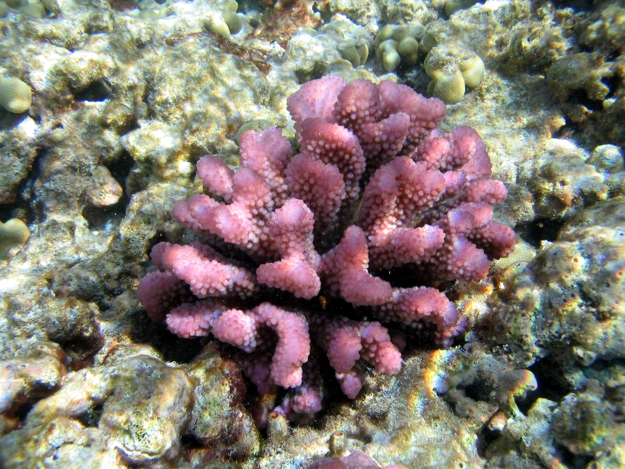 Cauliflower coral (Pocillopora meandrina) Image ID: reef0752, NOAA's Coral Kingdom Collection Location: Northwest Hawaiian Islands